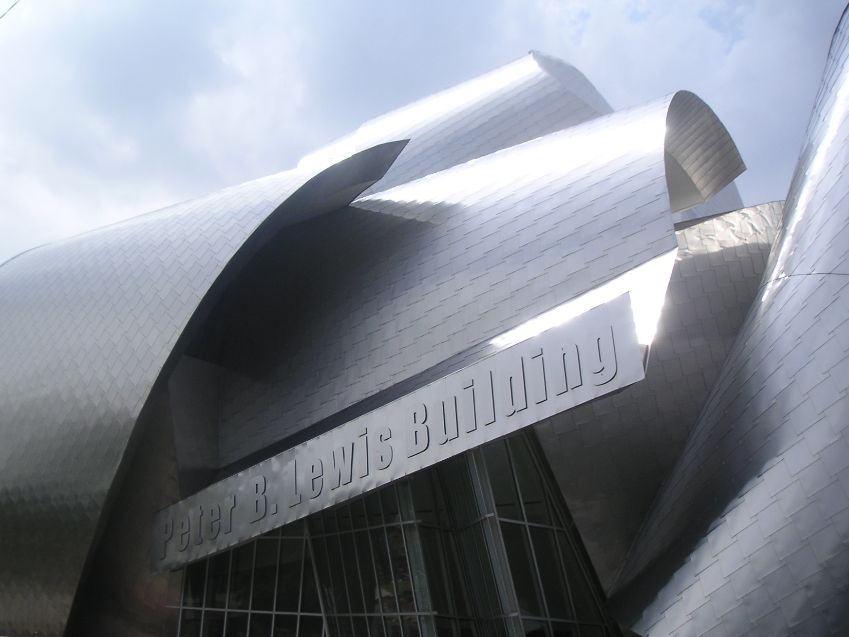 Entrance to the Peter B. Lewis Building at Case Western Reserve University